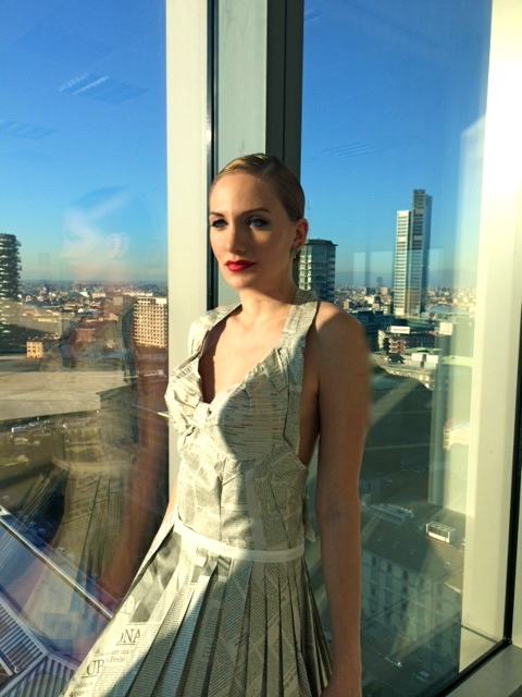 Rezan in character on the set of Ever Been to the Moon? in 2015.